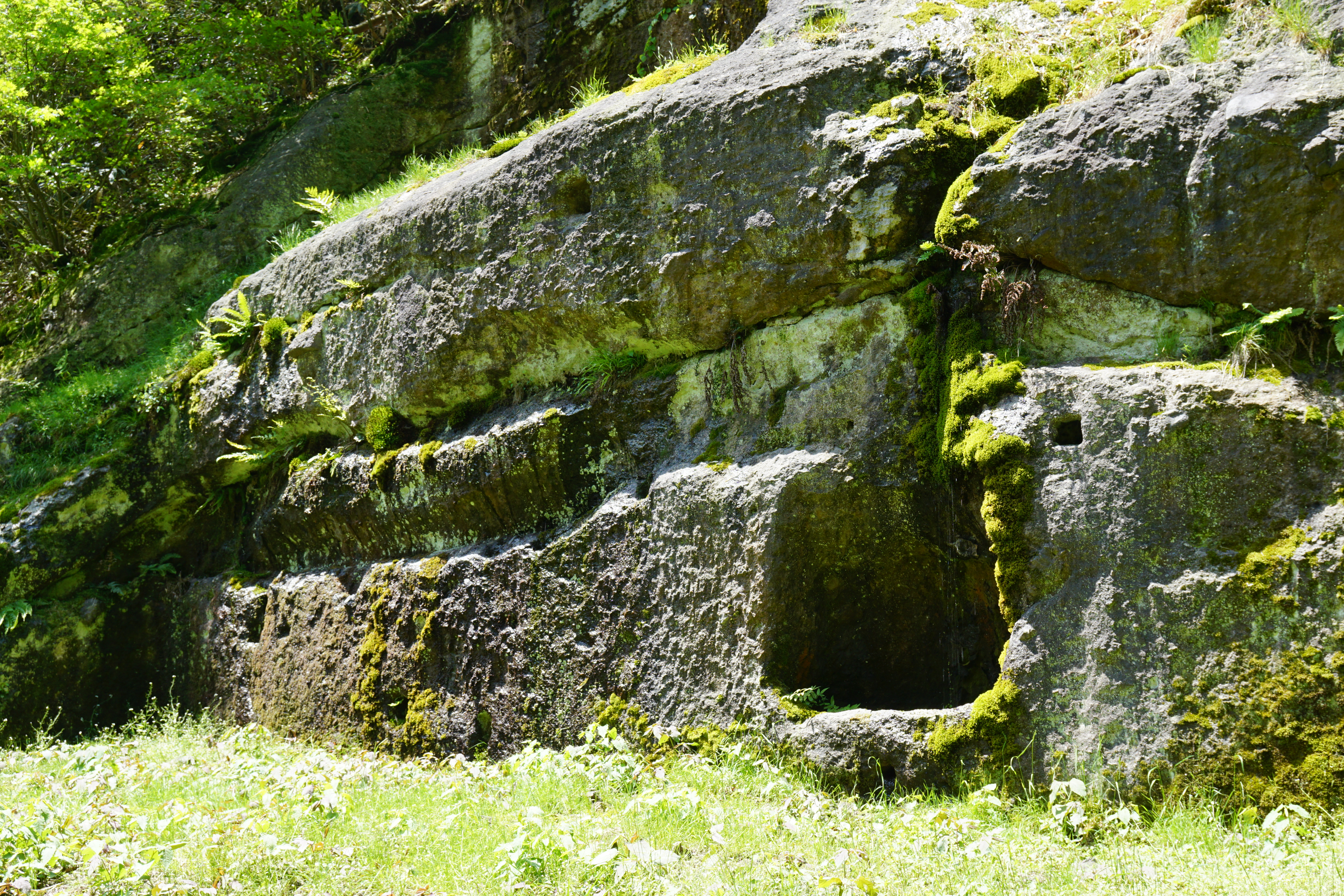 Kamaya Mabu Mine Shaft of Iwami Ginzan Silver Mine in Ōda, Shimane prefecture, Japan. It was registered as part of the UNESCO World Heritage Site "Iwami Ginzan Silver Mine and its Cultural Landscape".